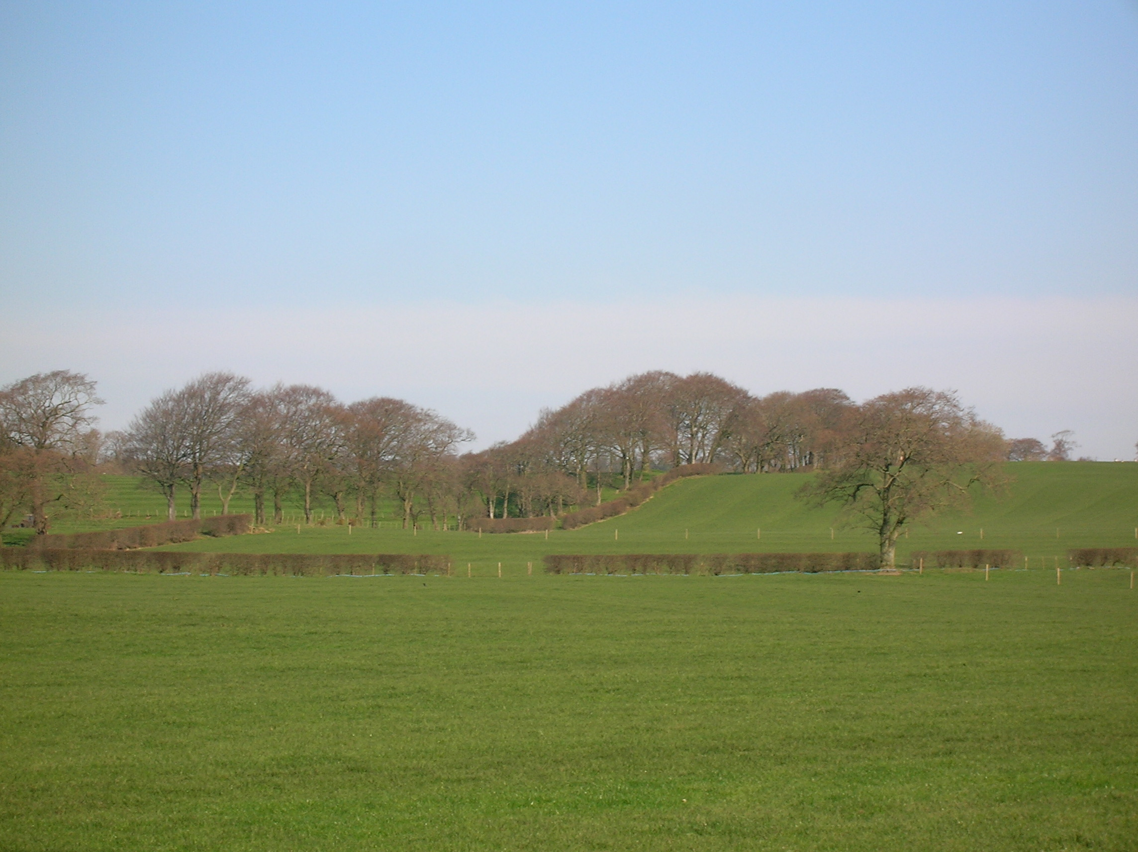 The old wooded lane from Muirhouses farm to Middleton cottage, with the 'cheepy neuk'. Perceton, Irvine, North Ayrshire, Scotland. 2007.